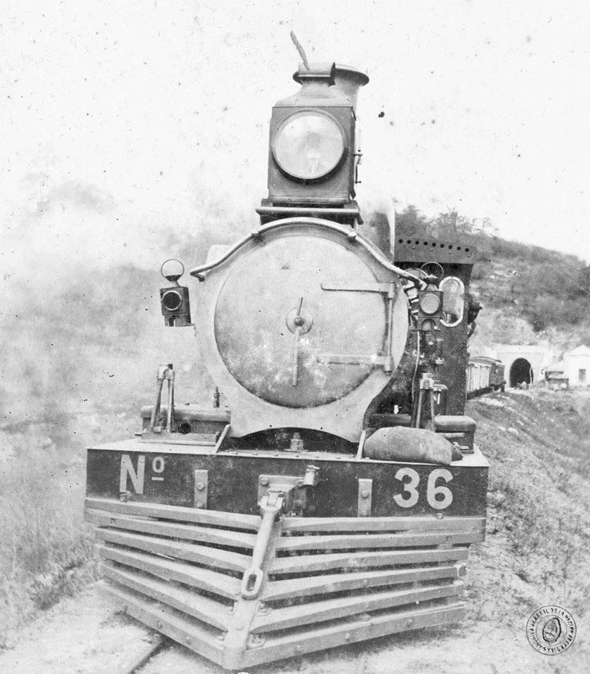 Locomotive acquired by theArgentine North Eastern Railway to Scottish manufacturer, Neilson & Company. The locomotive, locally renamed "Yatay", is currently under care of Ferroclub Argentino.